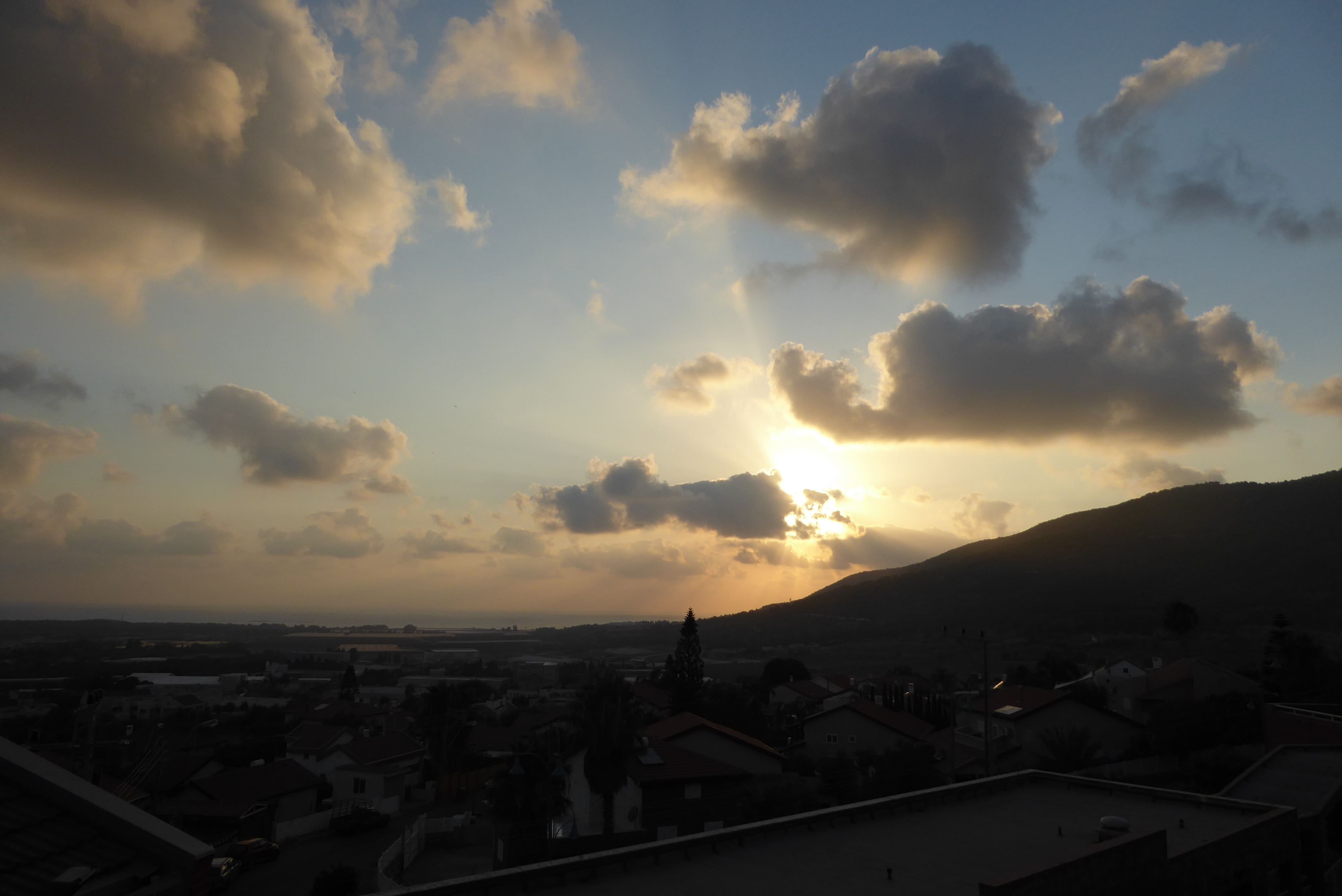 Shlomi (Hebrew: שְׁלוֹמִי) is a town in the Northern District of Israel.